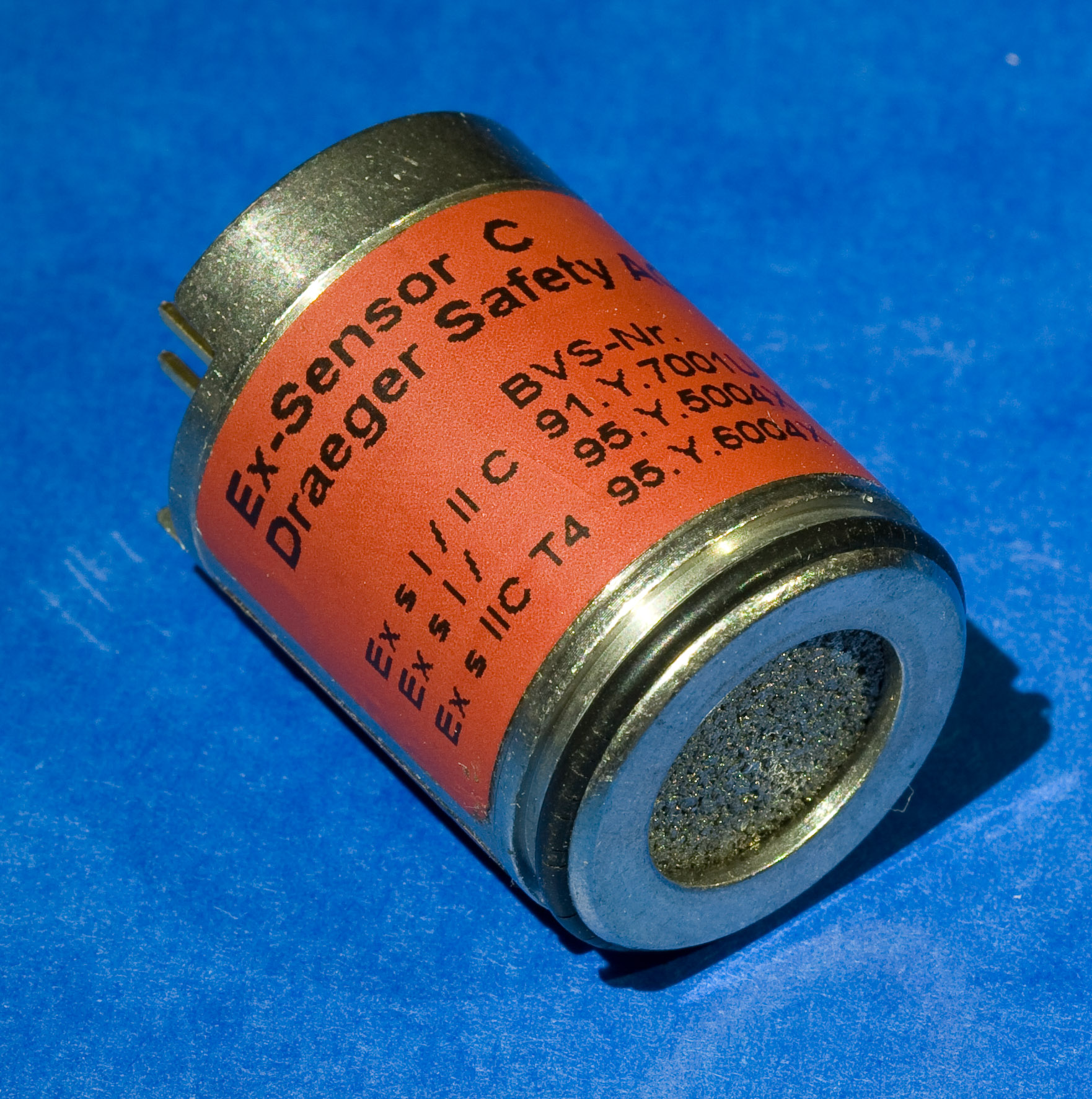 Sensor unit of a Explosimeter (using the heat-of-reaction principle for measuring)